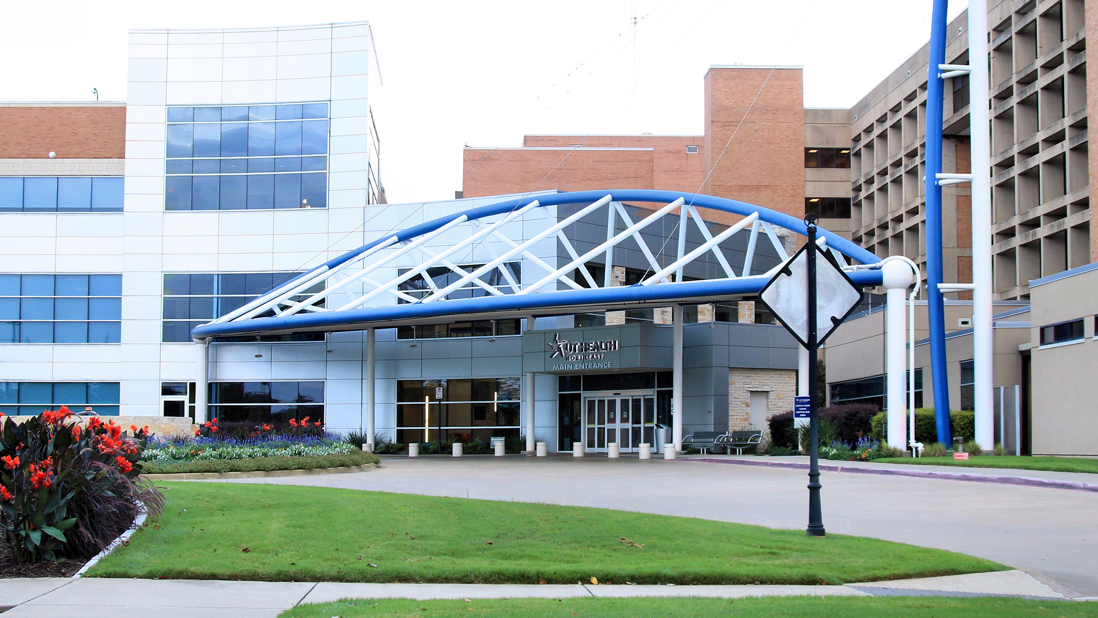 Entrance to the UT Health East Texas North Campus near Tyler, Texas, United States.